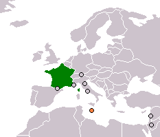 Own work, based on Wikipedia blank map.